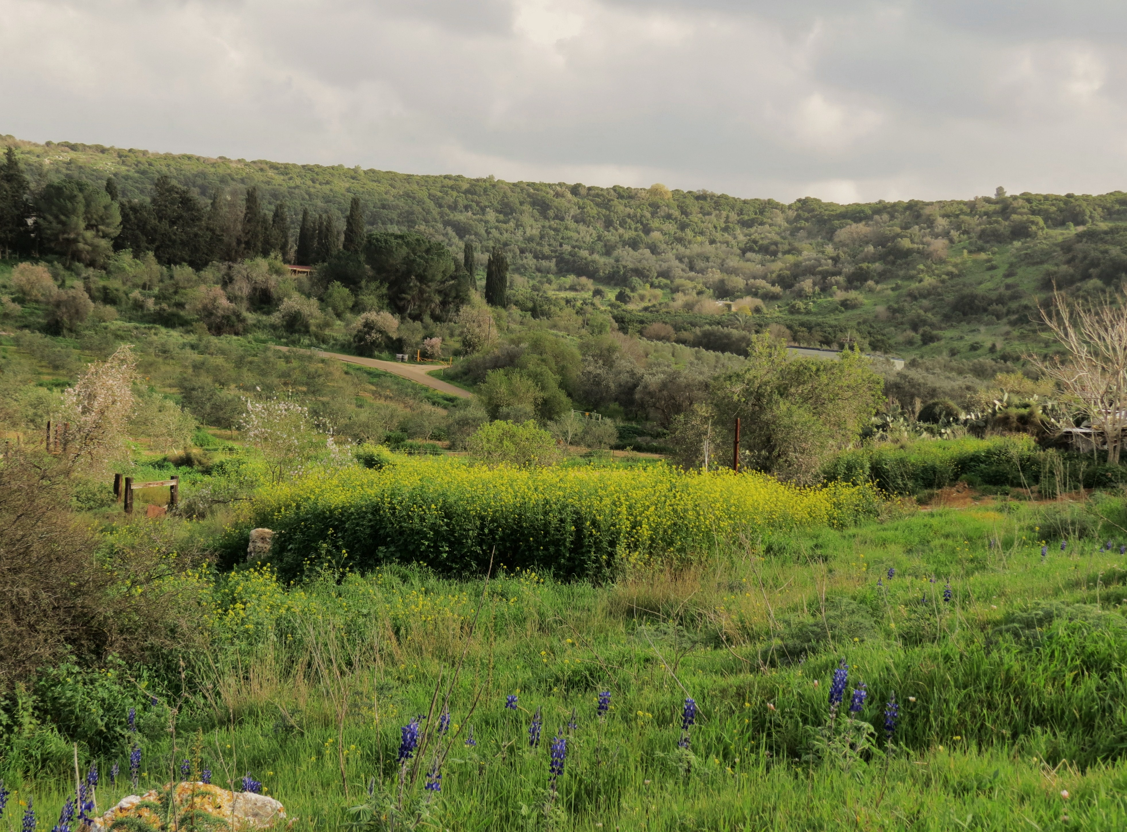 Nature and Colors